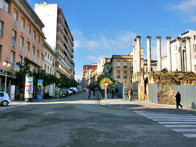 Claudio Marcelo Street, in Córdoba (Spain).